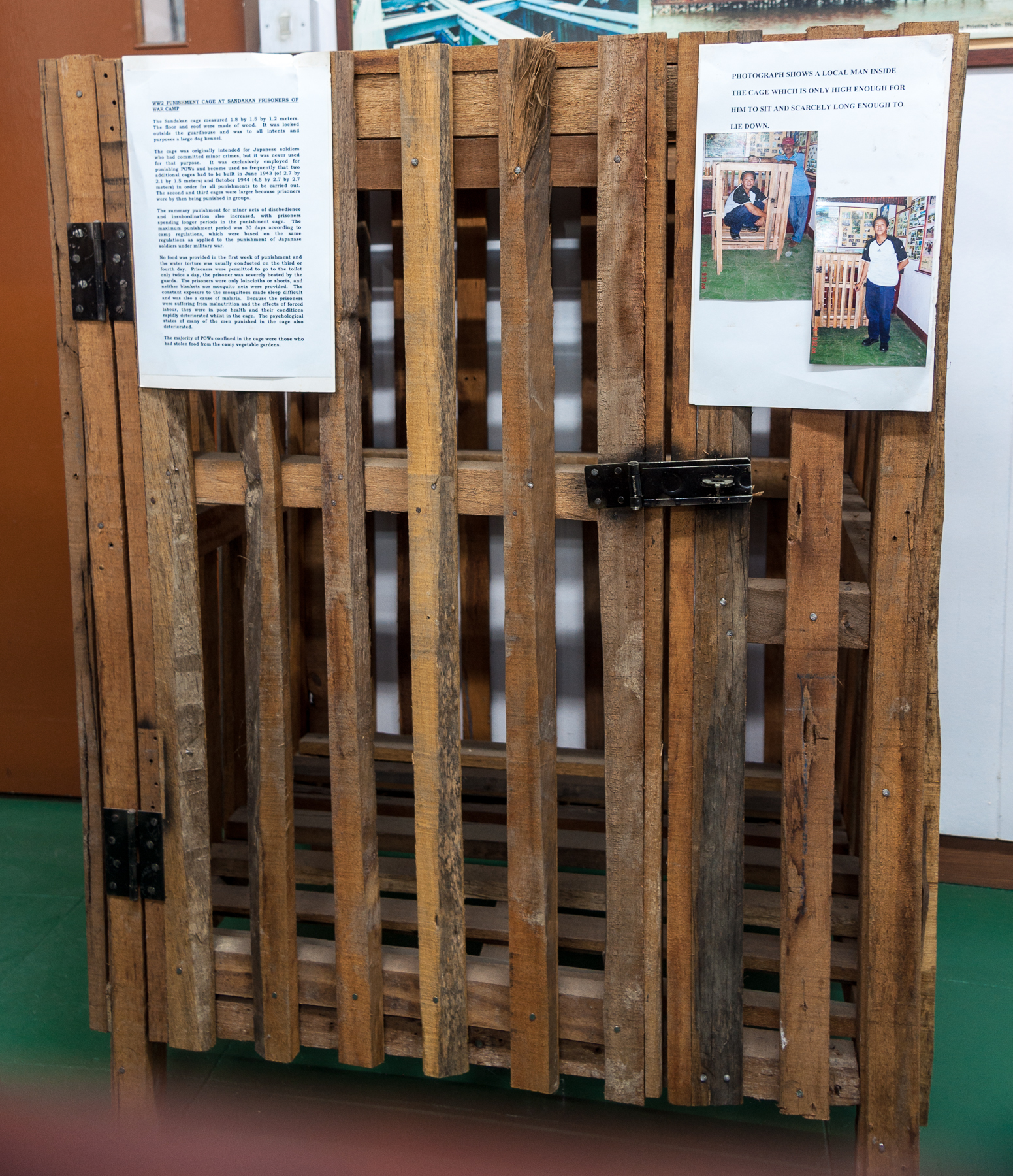 Sandakan, Sabah: Cage for POW in the Sandakan Camp; exhibited in the Tourist Office in Wisma Warisan